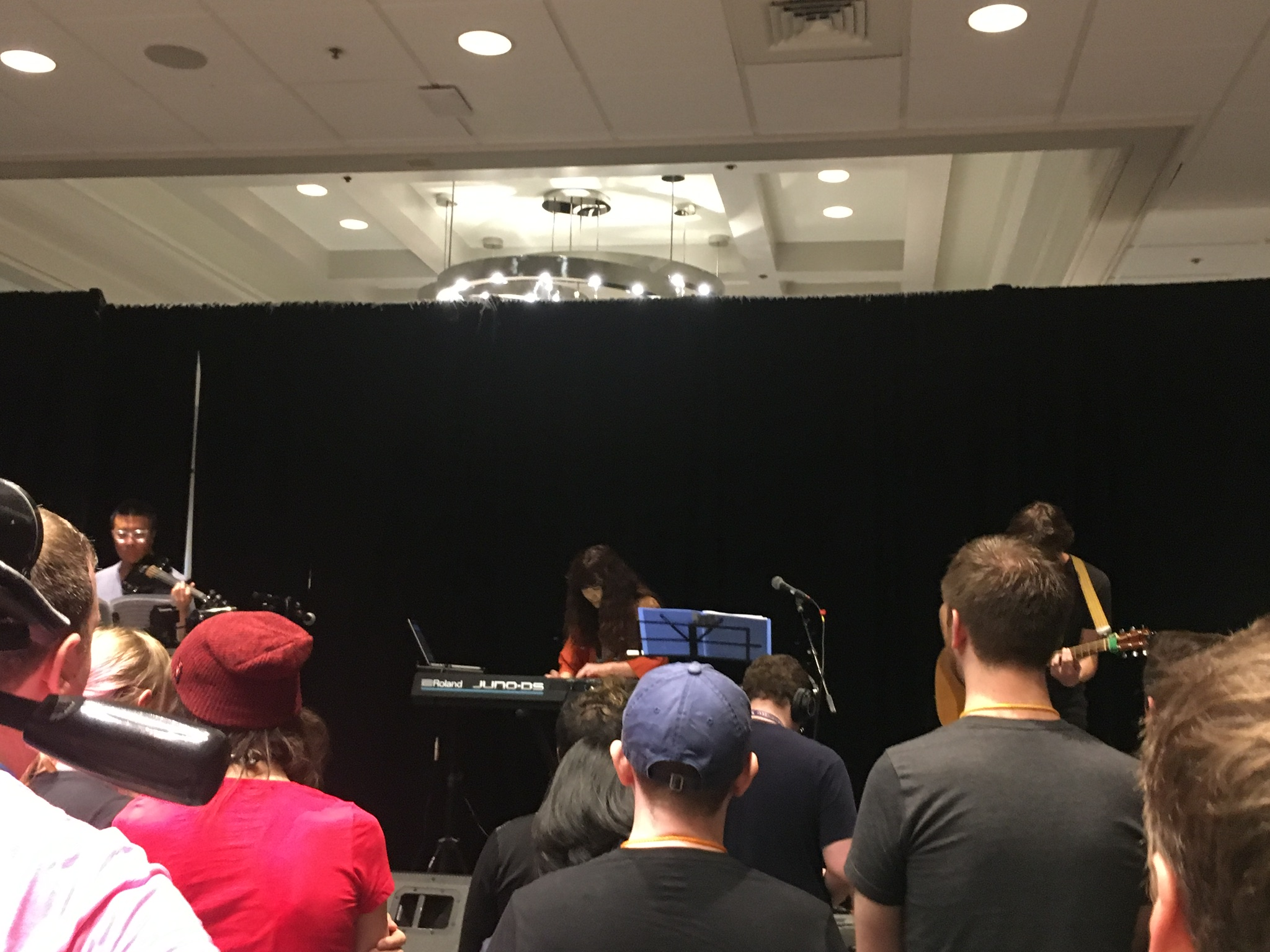 Saori Kobayashi performing on piano at MAGWest 2019 joined by Stemage on guitar and Ronin Op F on electric violin.